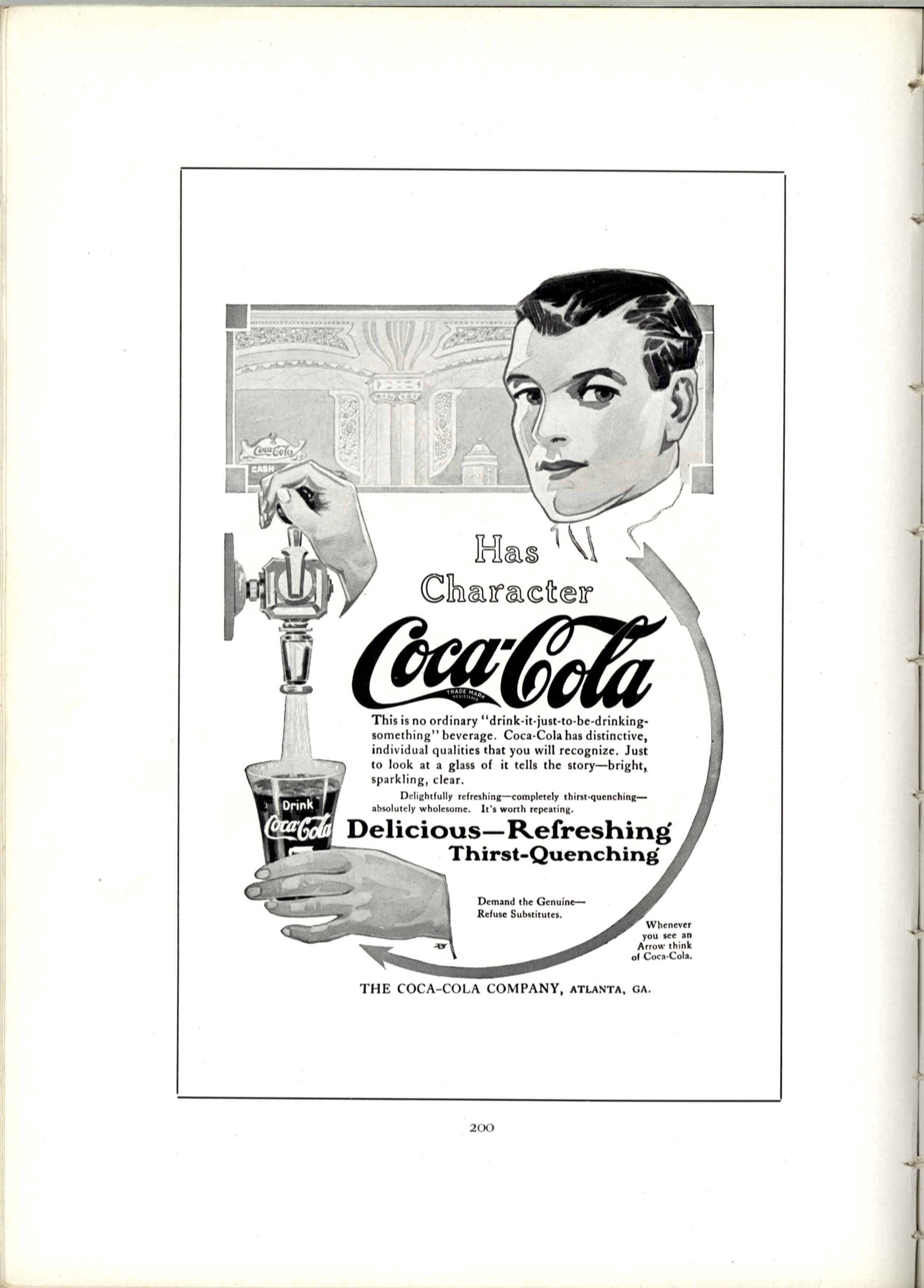 A page from volume VI of the Blueprint, the official yearbook of the Georgia Institute of Technology